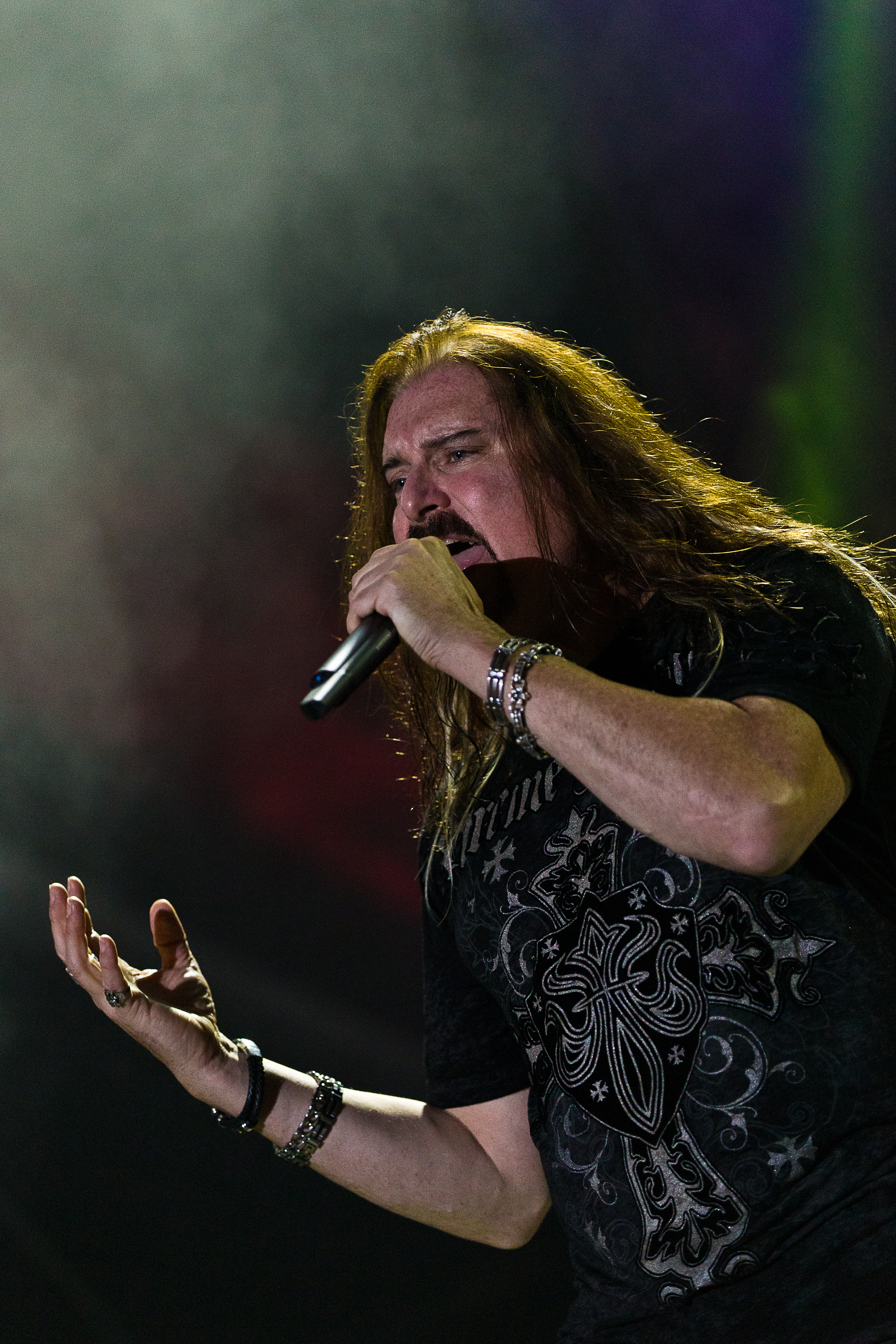 The American progressive metal band Dream Theater at the Rockharz Open Air 2015 in Ballenstedt/Germany.